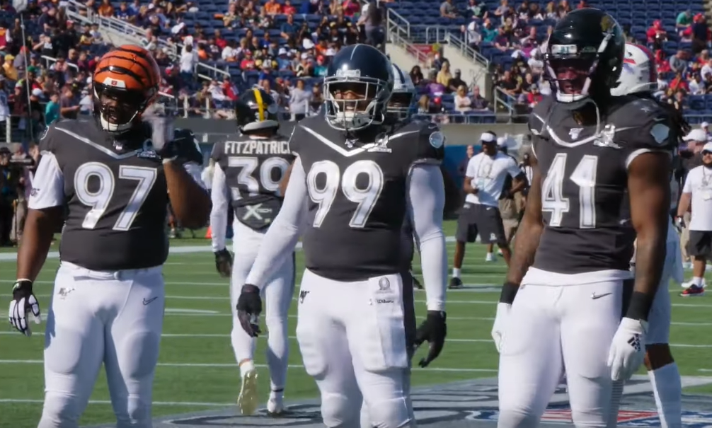 Josh Allen, Jurrell Casey, and Geno Atkins